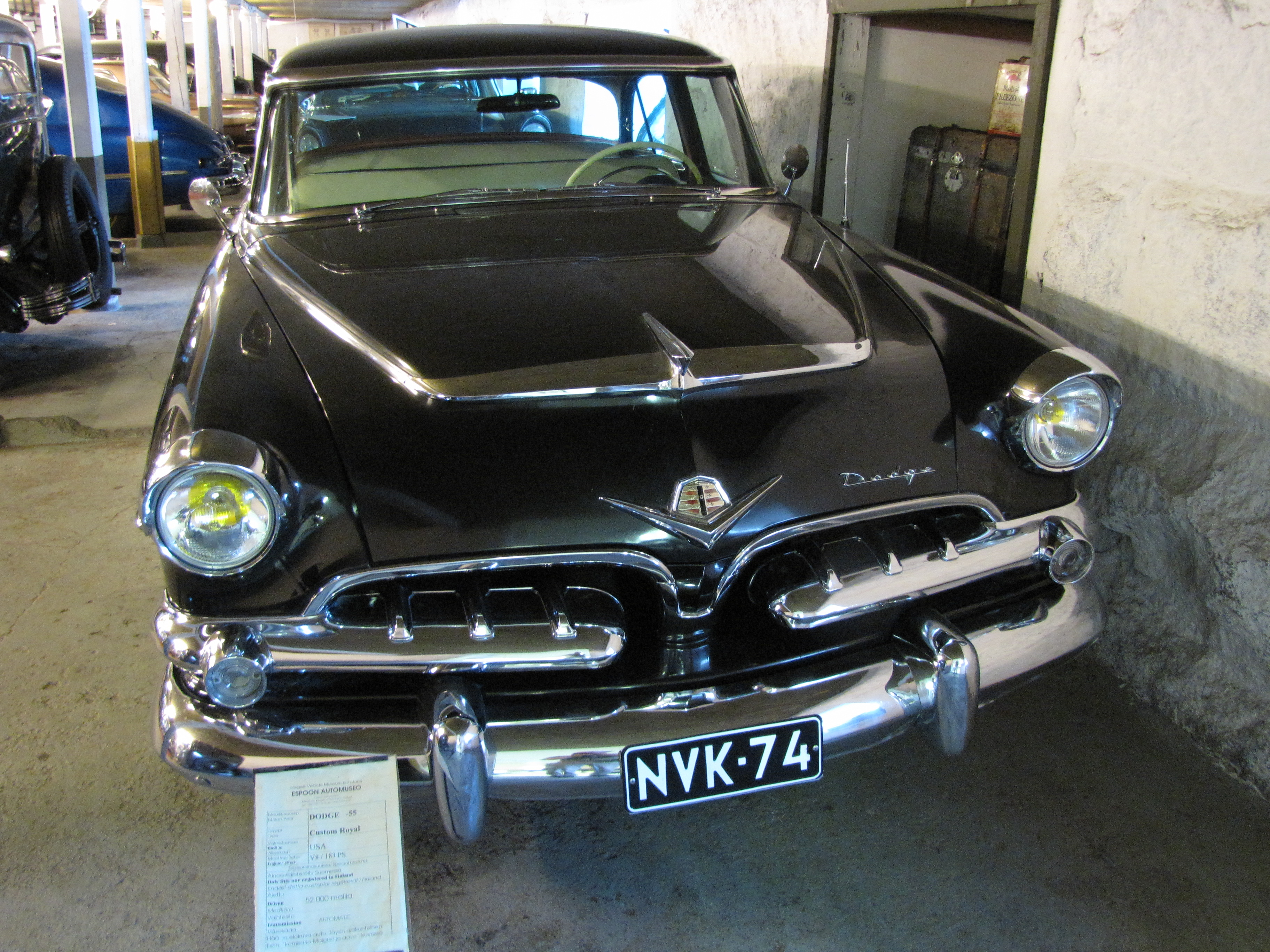 Dodge Custom Royal model 1955. Only one registered in Finland, used in movies and wedding ceremonies. Photographed in Espoo Automobile Museum.